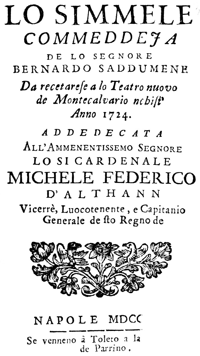 Title page of the libretto for Antonio Orefice's opera Lo Simmele printed for its premiere performance on 15 October 1724 at the Teatro Nuovo in Naples.